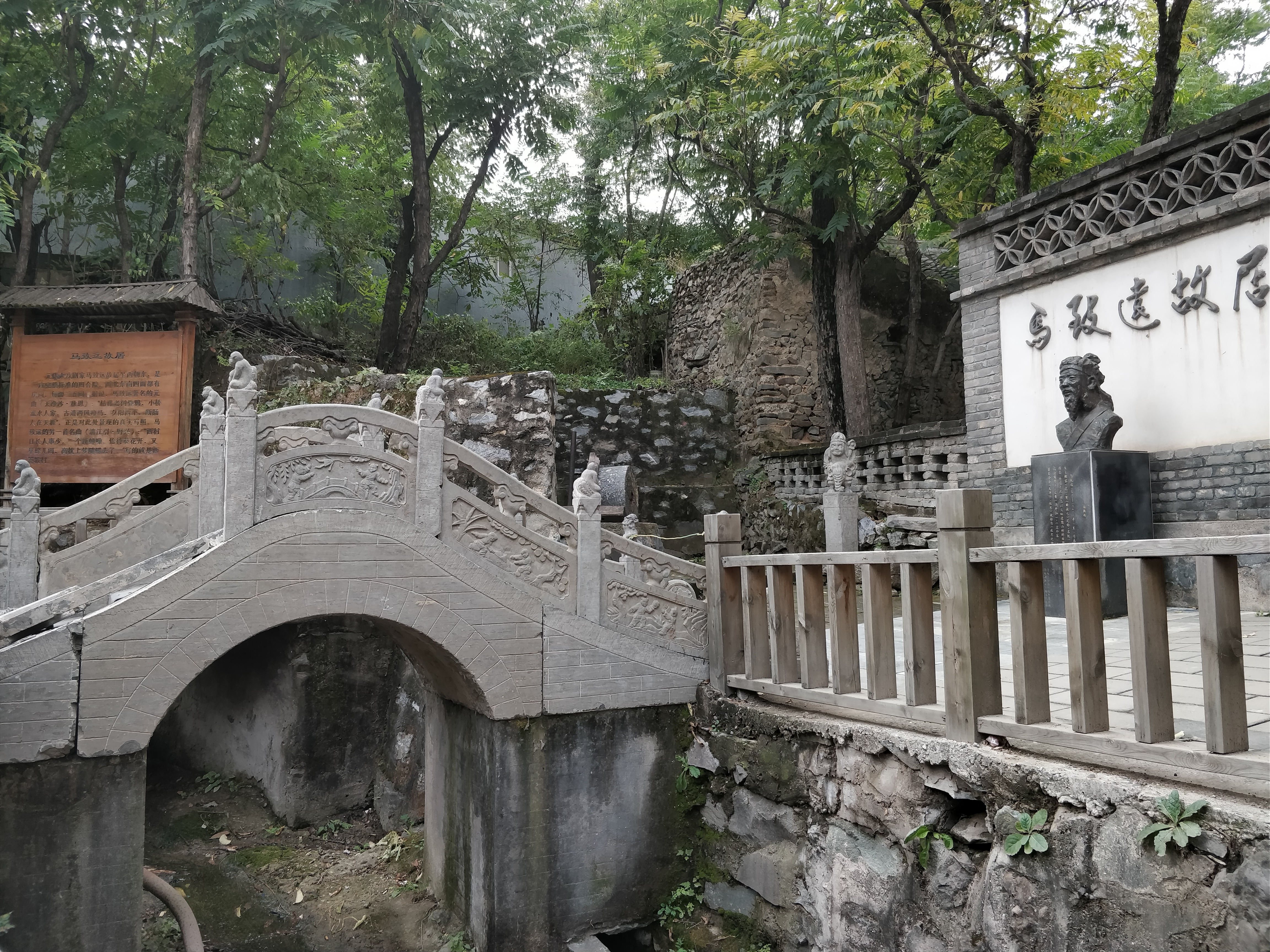 A bridge in the Former Residence of Ma Zhiyuan.